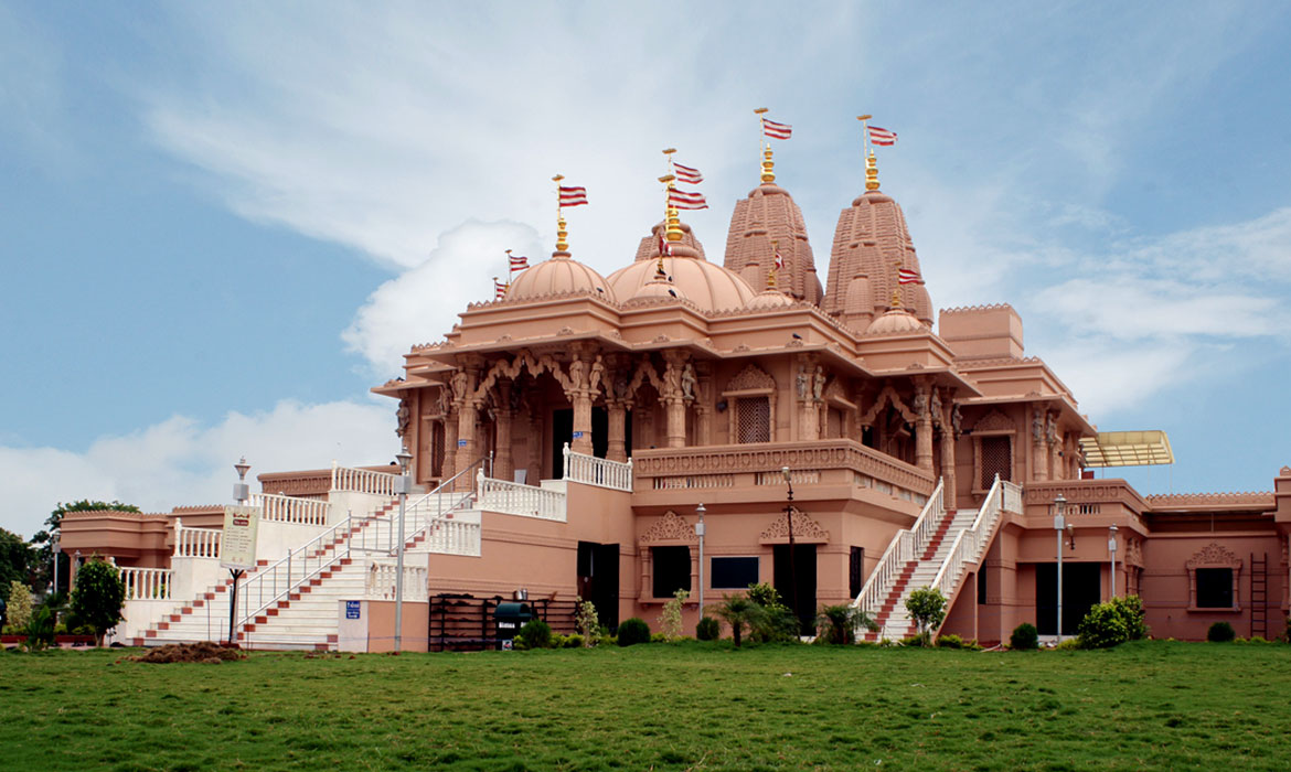 dfcd